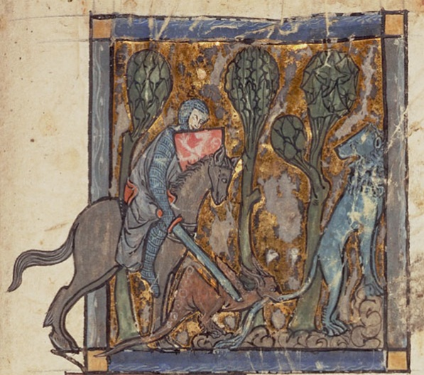 "Yvain rescues the lion", miniature from Garrett MS. No. 125 (ca. 1295) kept at Manuscripts Division, Department of Rare Books and Special Collections, Princeton University Library [1]